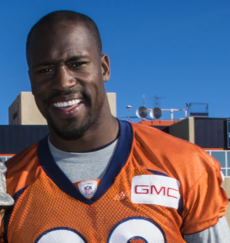 Denver Broncos tight end, Vernon Davis, attending Denver Broncos' Military Appreciation Day on November 12, 2015.